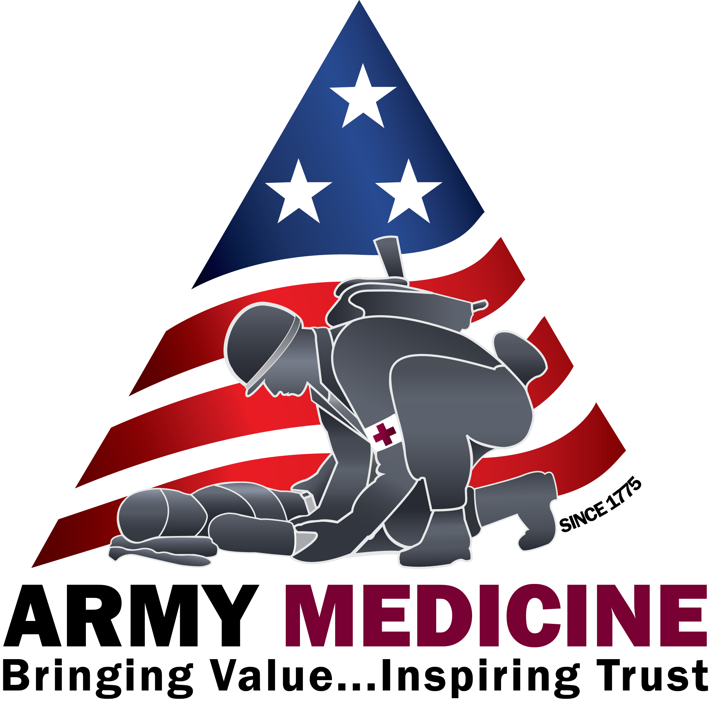 Army Medicine Logo